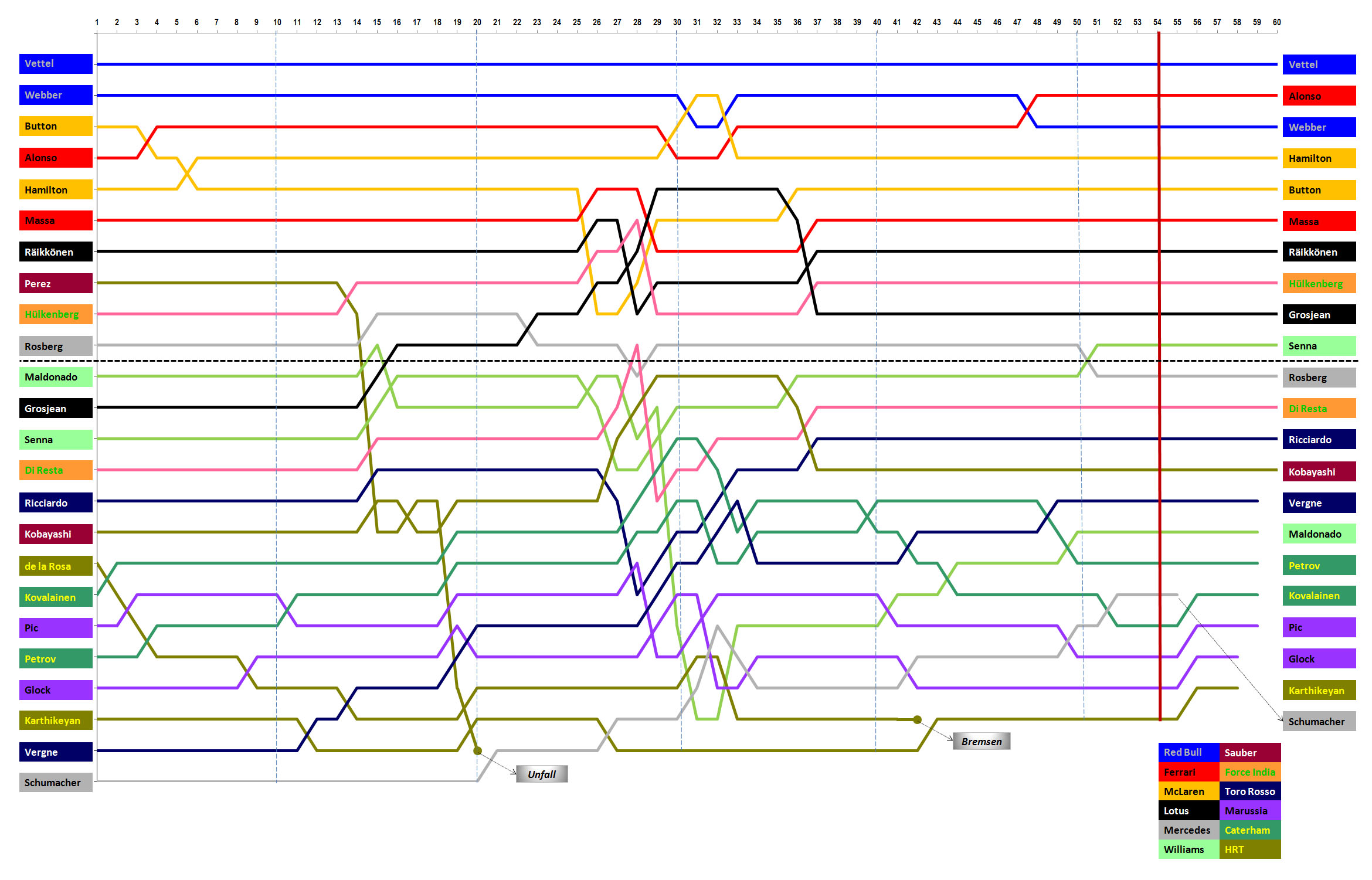 Round Table indian GP 2012